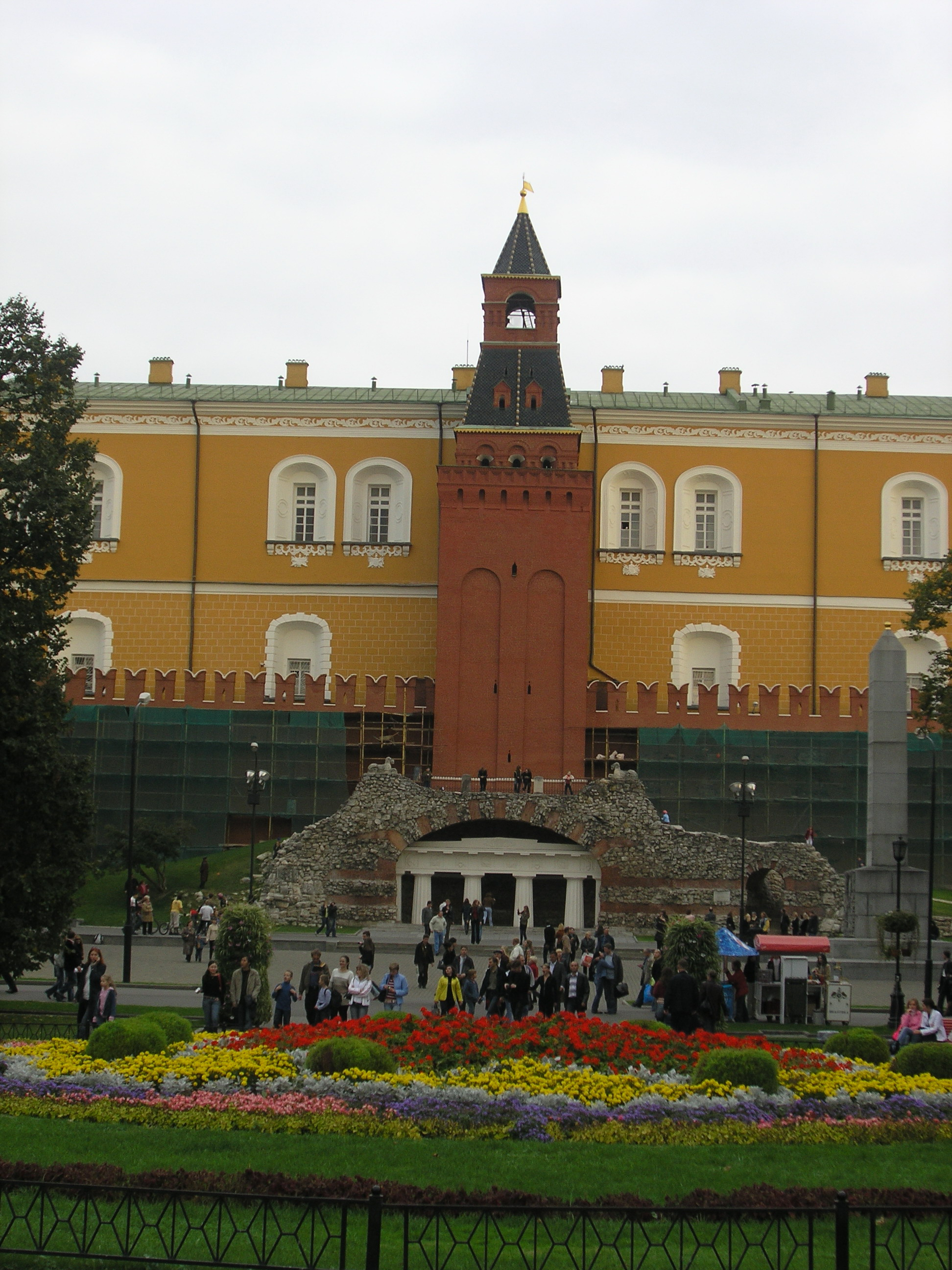 Middle Arsenal tower of Moscow Kremlin. Moscow, Russia.